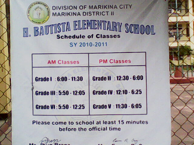 Photograph of a tarpaulin showing the different shifts for students in H. Bautista Elementary School in Marikina, Philippines